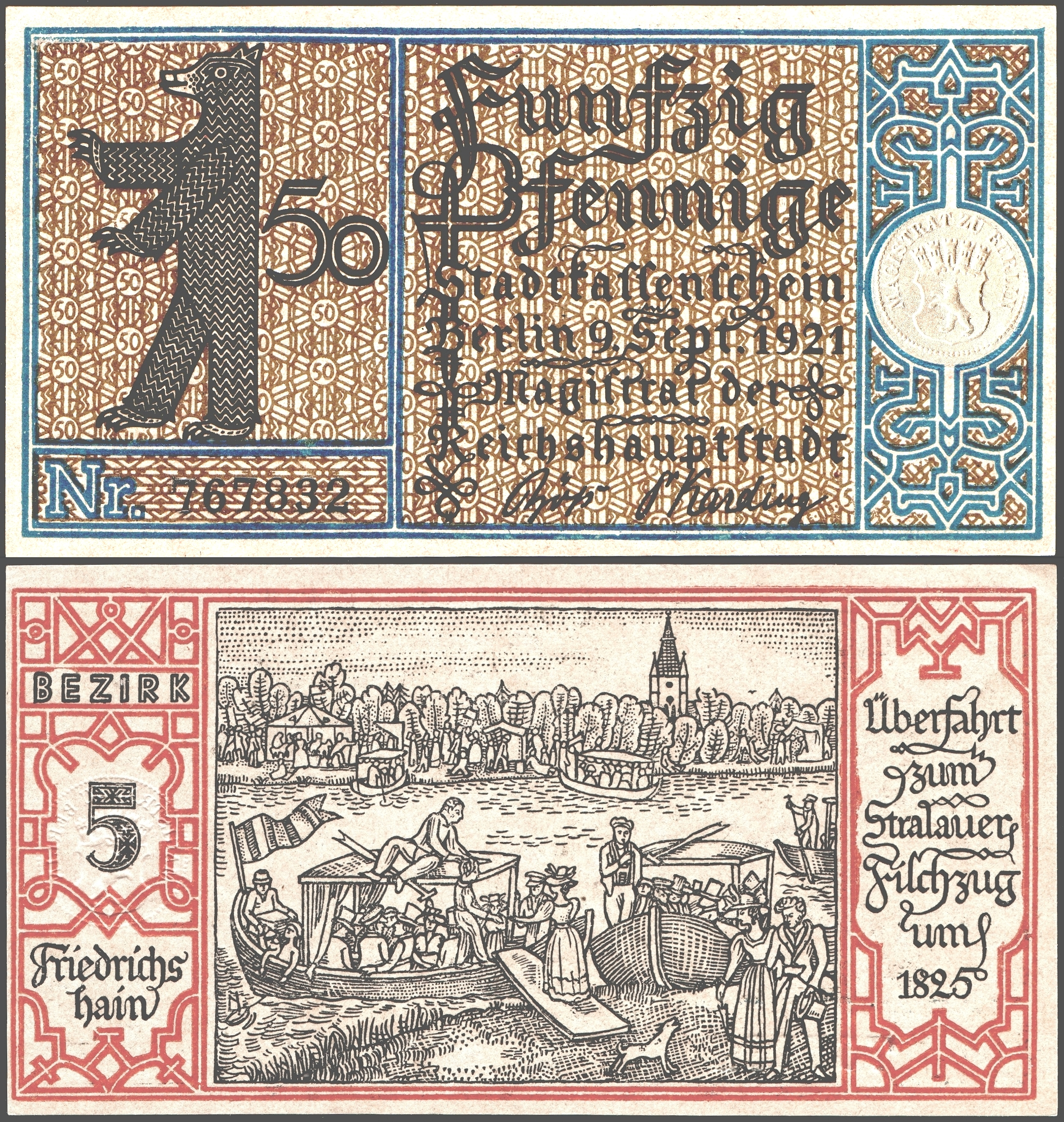 50 Pfennig "Notgeld" banknote (emergency money) of Berlin (1921), size: 55 mm x 103 mm. The revers shows the departure from the district Berlin-Friedrichshain for the traditional fisherman's festival Stralauer Fischzug around 1825.